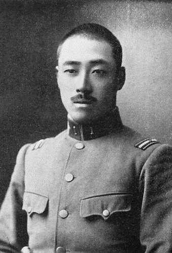 Kuniyuki Tokugawa